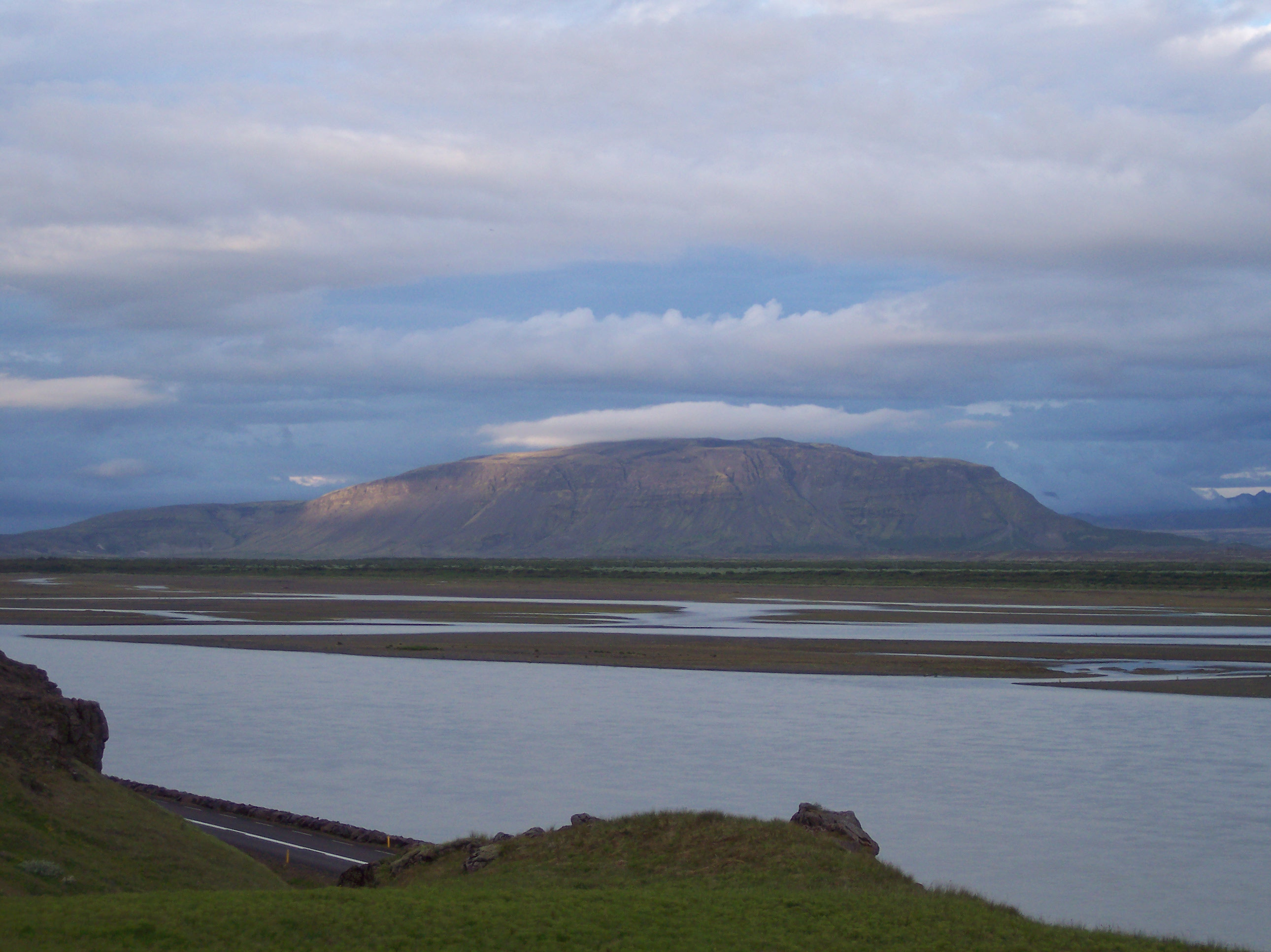 The mountain Búrfell in Þjórsárdalur, Iceland.